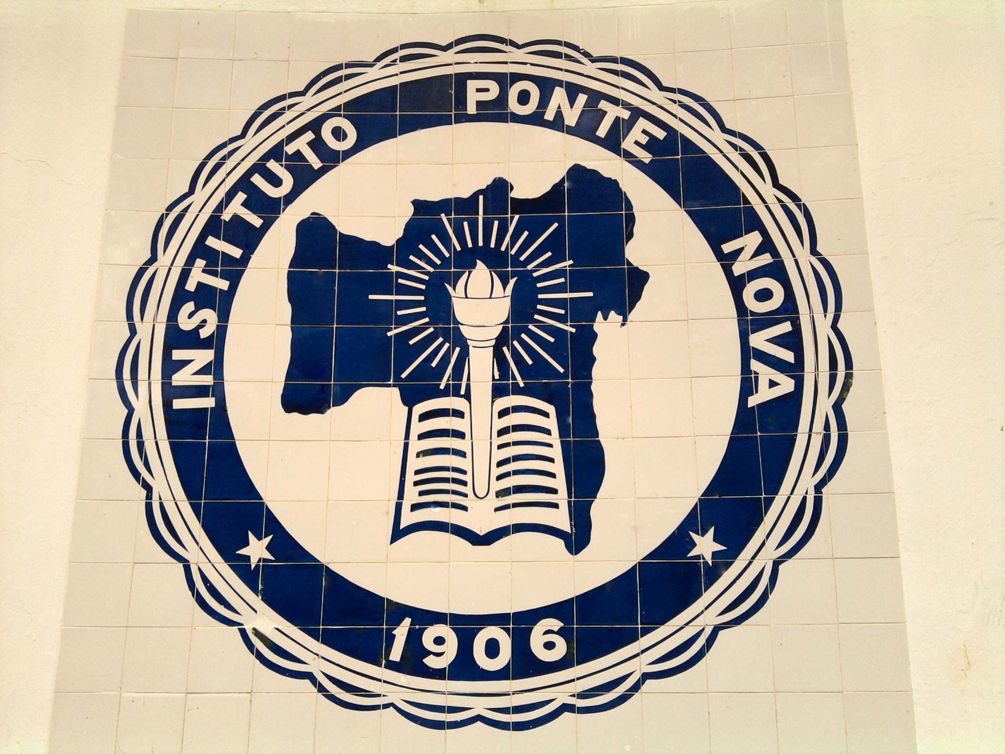 School founded in 1906 by North Americans in Brazil, state of Bahia, located Chapada Diamantina in Wagner city.